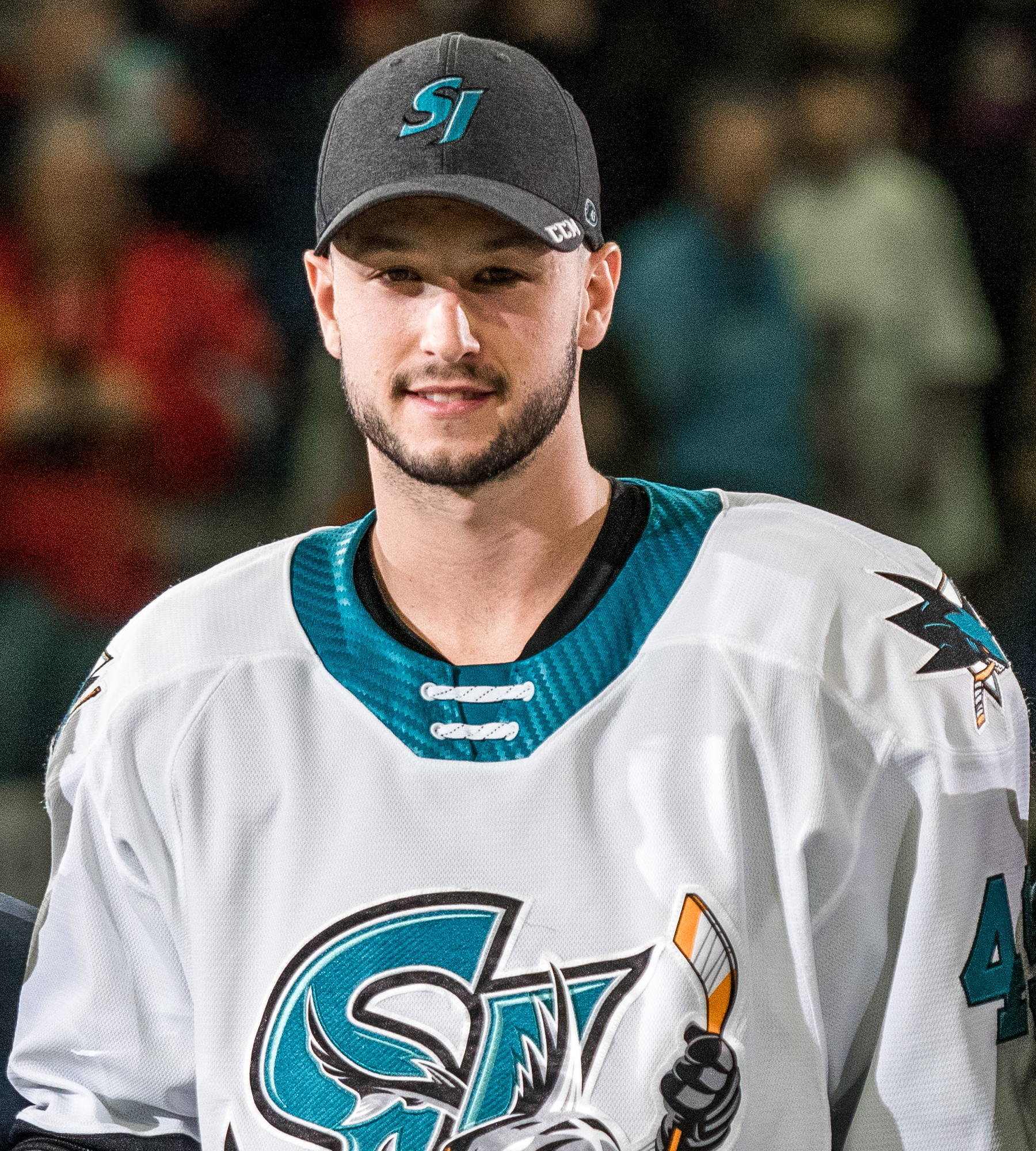 Photo by: China Wong